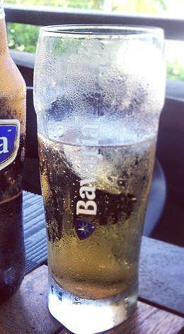 bavaria #beer #drink #non-Alcoholic